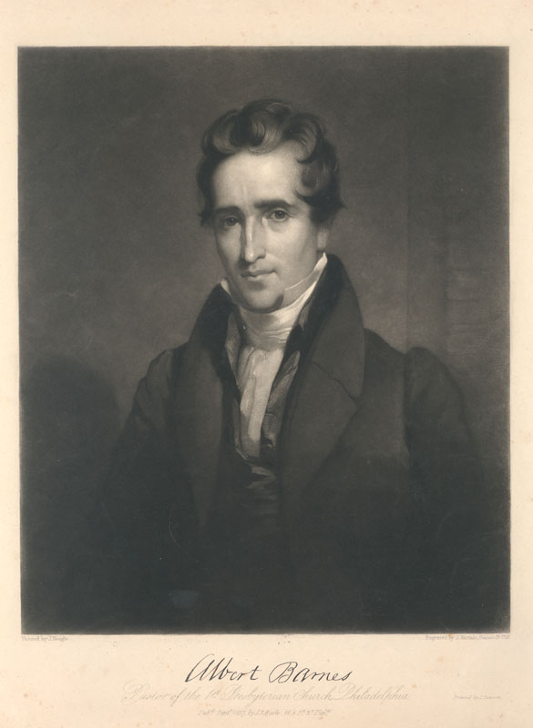 This image of Albert Barnes was published September 1837 by J.S. Earle of Philadelphia